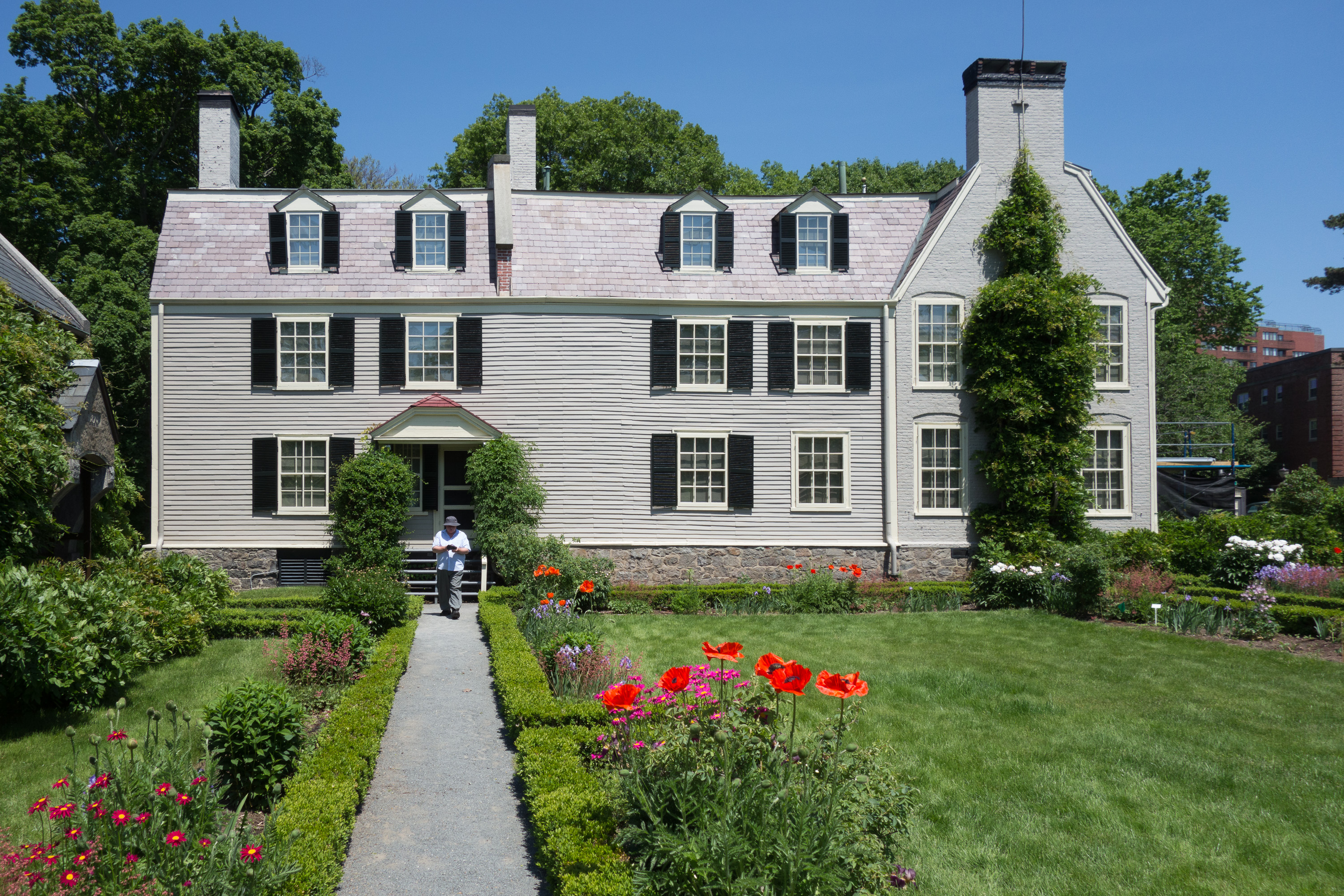 Peacefield, side of house and garden.